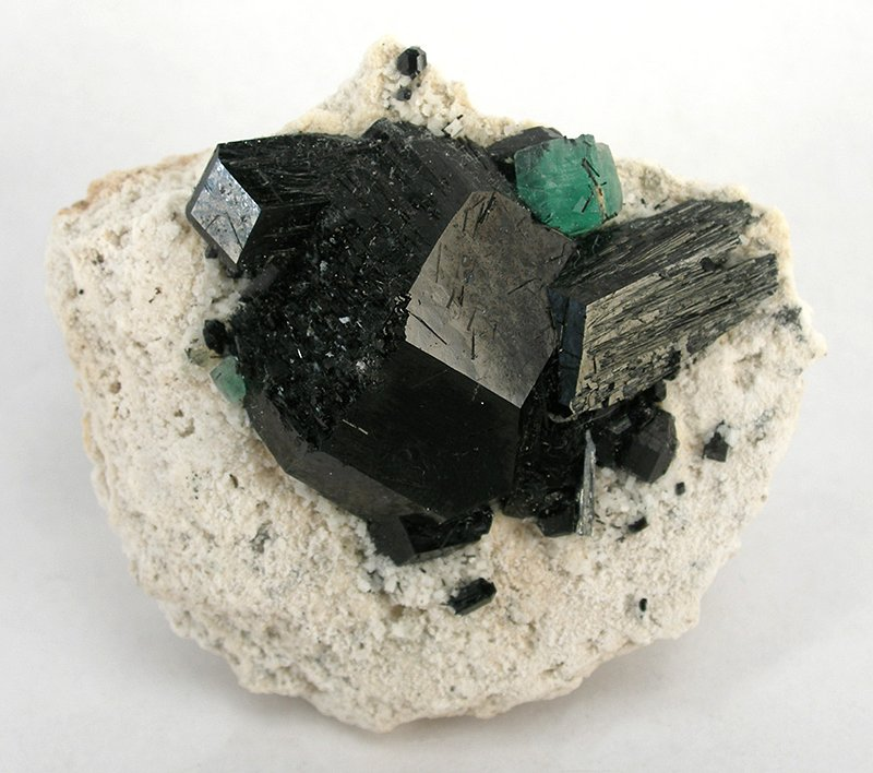 Fluorite, Foitite, Schorl Locality: Erongo Mountain, Usakos and Omaruru Districts, Erongo Region, Namibia (Locality at ) Size: small cabinet, 6.5 x 5.8 x 3.7 cm Schorl, Foitite, Fluorite on Feldspar A strange combination specimen featuring a single stark green fluorite isolated on top of schorl crystals. This in itself is unusual. The larger crystals are schorl, and I am told (though havent analysed), that the smaller tourmaline crystals , almost needlelike, are the related tourmaline species foitite